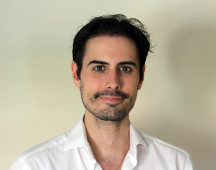 Writer Pedro Estrada (2018)